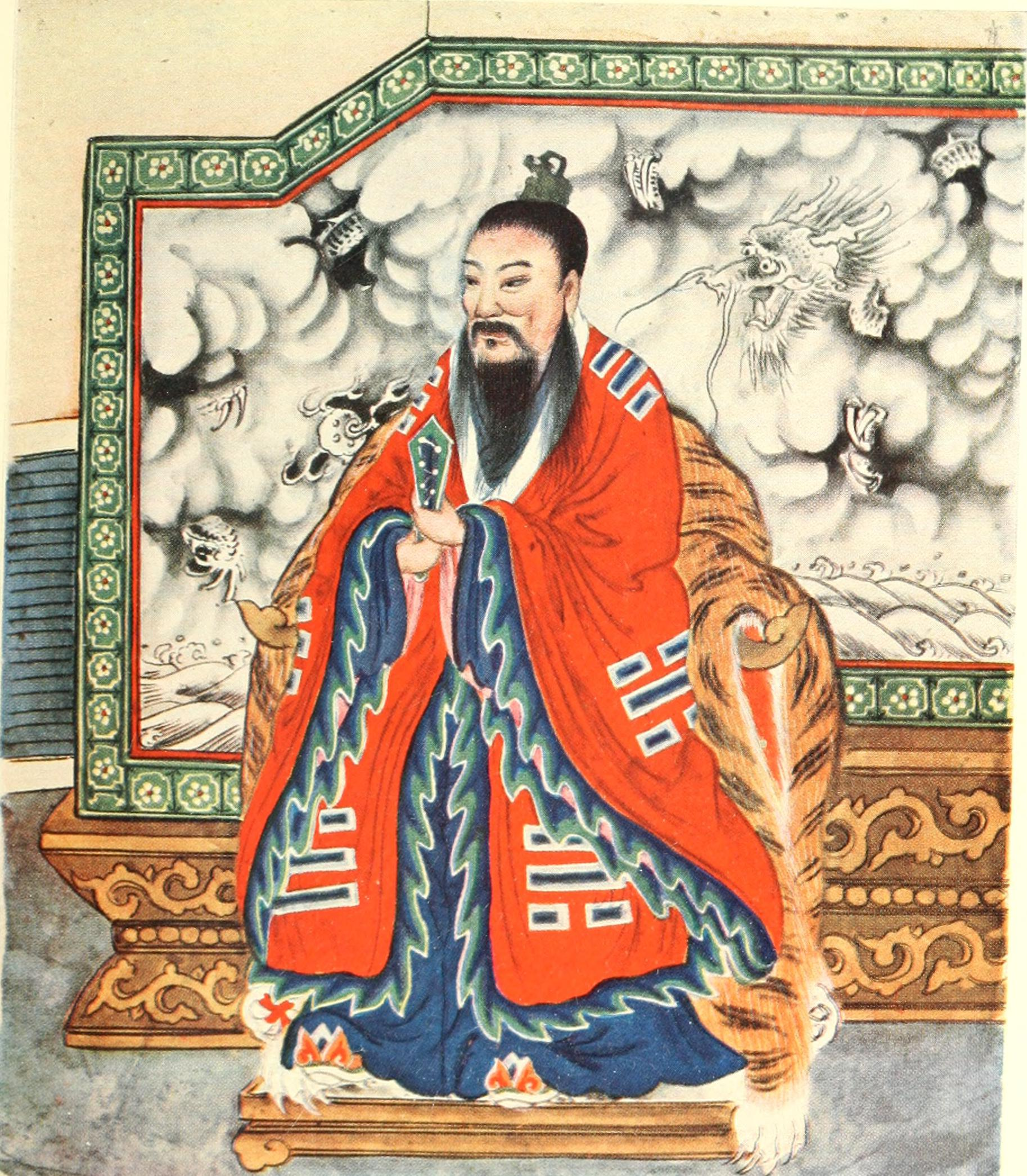 Title: The mythology of all races Year: 1916 (1910s) Authors: Gray, Louis H. (Louis Herbert), 1875-1955 Moore, George Foot, 1851-1931 MacCulloch, J. A. (John Arnott), 1868-1950 Subjects: Mythology Publisher: Boston : Marshall Jones Text Appearing Before Image: Fig. 59. The Goddess of Tai-shan,Niang Niang PLATE VI Chang Tao-lin, Taoist Patriarch See pp. 13 ff. Text Appearing After Image: FOLK-LORE 155 place at the rear of a certain temple where he suddenly cameupon a hidden treasure of gold. As soon as he awoke he wentto the place, dug a hole and discovered a large quantity of gold,each piece of which was marked with his own name. An oldman and woman are said to have appeared in a dream to thePrince of Yen who became the Emperor Yung Lo, 1403-1425A.D., of the Ming dynasty. He had just completed the buildingof the present city of Peking with its nine gates and magnificentpalaces. The people were loud in their praise of the beautyand strength of the city, and looked forward to a period ofgreat prosperity and peace. Unfortunately it was not longbefore a severe drought ensued and the wells were all driedup. The cause of the drought was reported by this old manand woman to have been the disturbance of the abode of twowater-dragons at Lei Chen Kou, a village to the east of Pekingoutside the Tung Pien Men. The dragons decided to gatherup all the water of the district in two